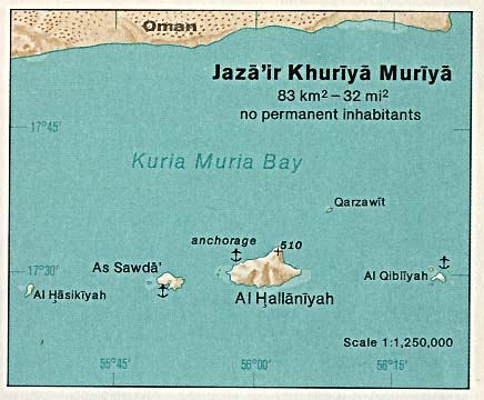 Map of Khuriya Muriya Islands (Oman) in the Indian Ocean